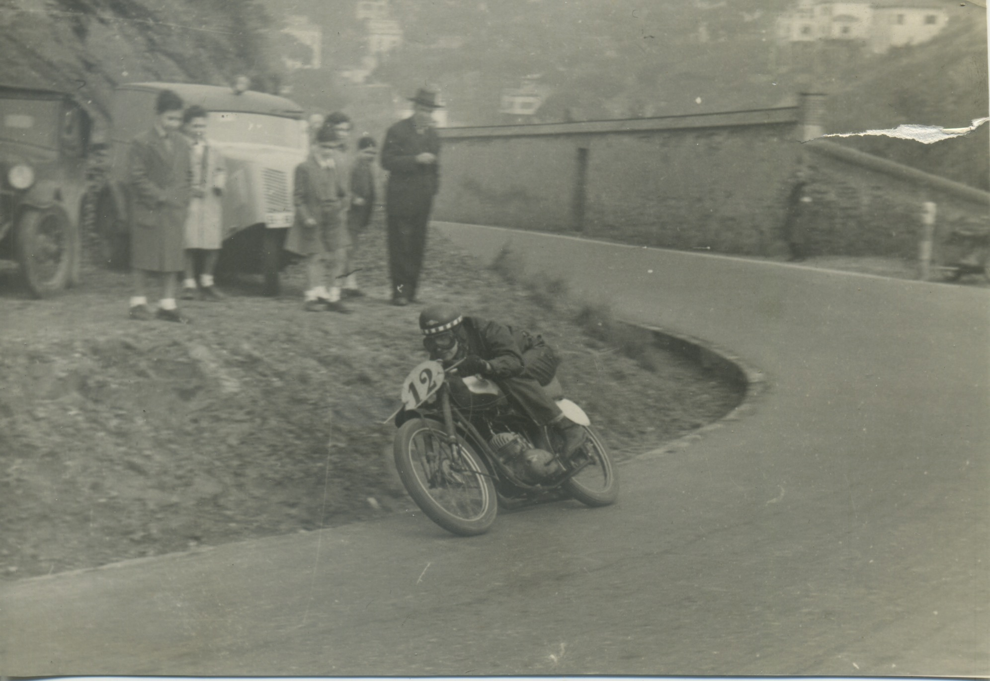 Paco Tombas on his Derbi at the 1954 Prueba en Cuesta a Vallvidrera